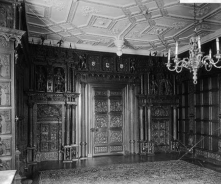 Looking towards the west end of the 17th century oak panelled room at The Grange in the parish of Broadhembury, Devon, England, showing part of the plaster ceiling decorated with pendants.